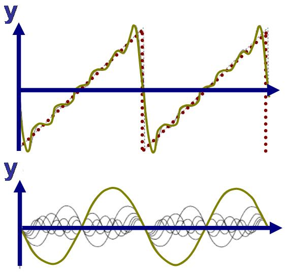 Superposition of Fourier components of a sawtooth wave